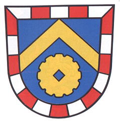 Coat of arms of Dachwig